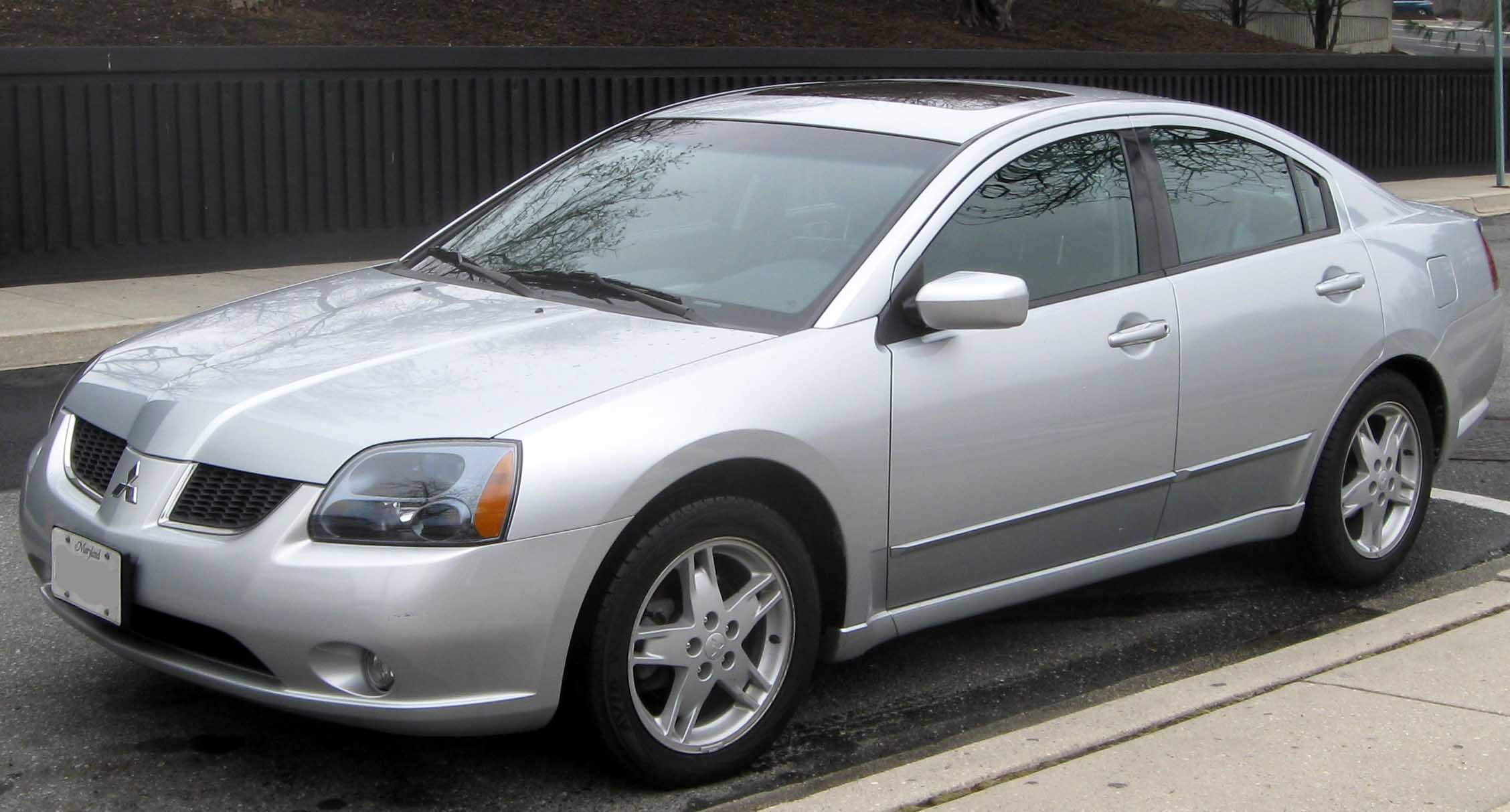 2004-2006 Mitsubishi Galant photographed in Rockville, Maryland, USA.